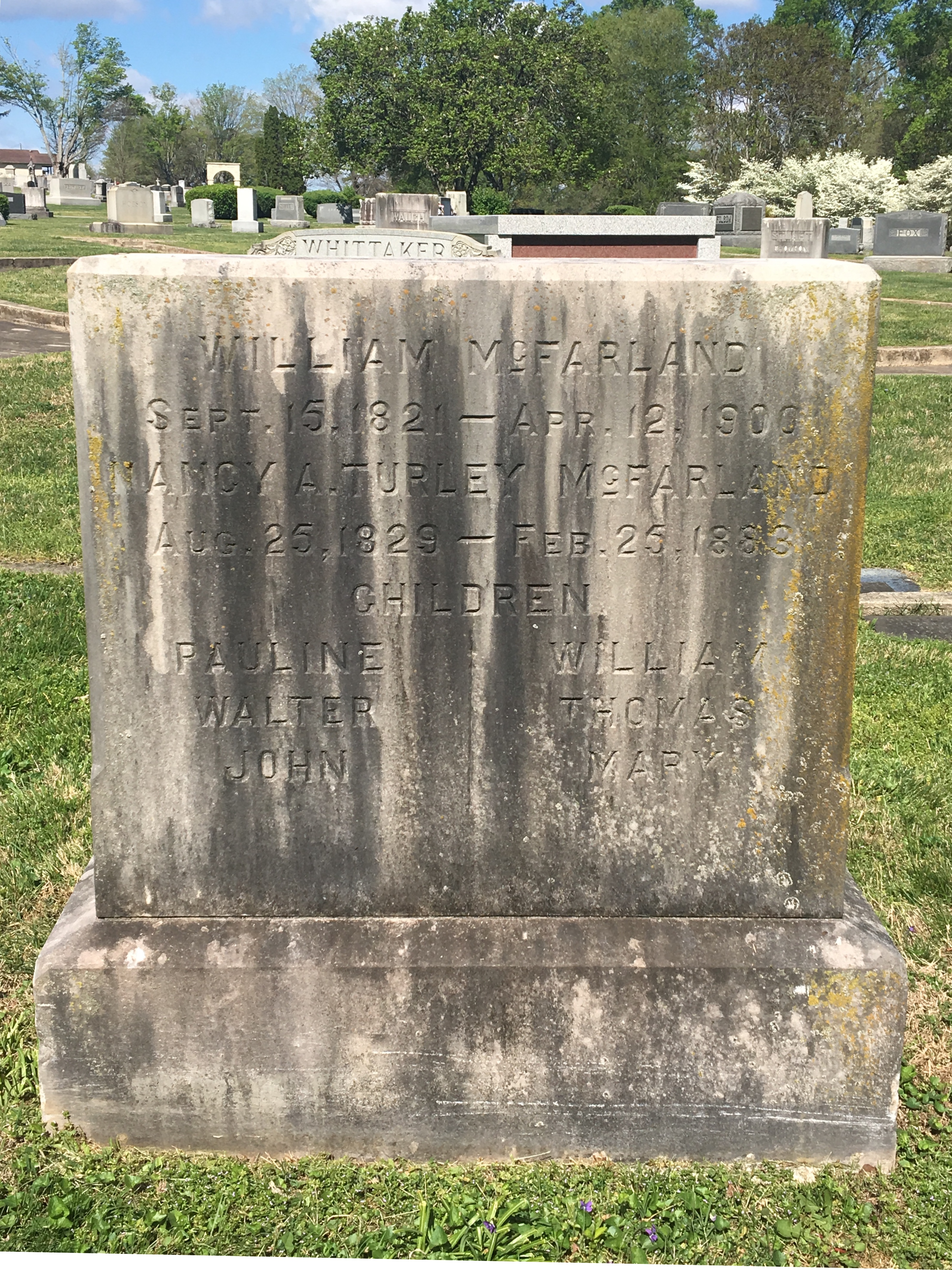 The headstone of former Tennessee Governor William McFarland at Emma Jarnagin Cemetery in Morristown, Tennessee in 2020.